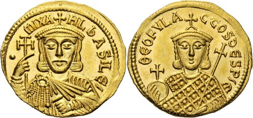 Michael I Rhangabe, with Theophylactus. 811-813. Solidus (Gold, 4.40 g 6). MIXAHL bASILE’ Bearded bust of Michael I facing, wearing chlamys and crown with cross, and holding a cross potent in his right hand and an akakia in his left; to left, pellet. Rev. ΘEOFVLACTOS DESP’E Beardless bust of Theophylactus facing, wearing loros and crown with cross, and holding a globus cruciger in his right hand and a cross tipped scepter in his left. DOC 1b. SB 1615. Very rare. Very well struck and centered, an exceptional piece. Virtually as struck.